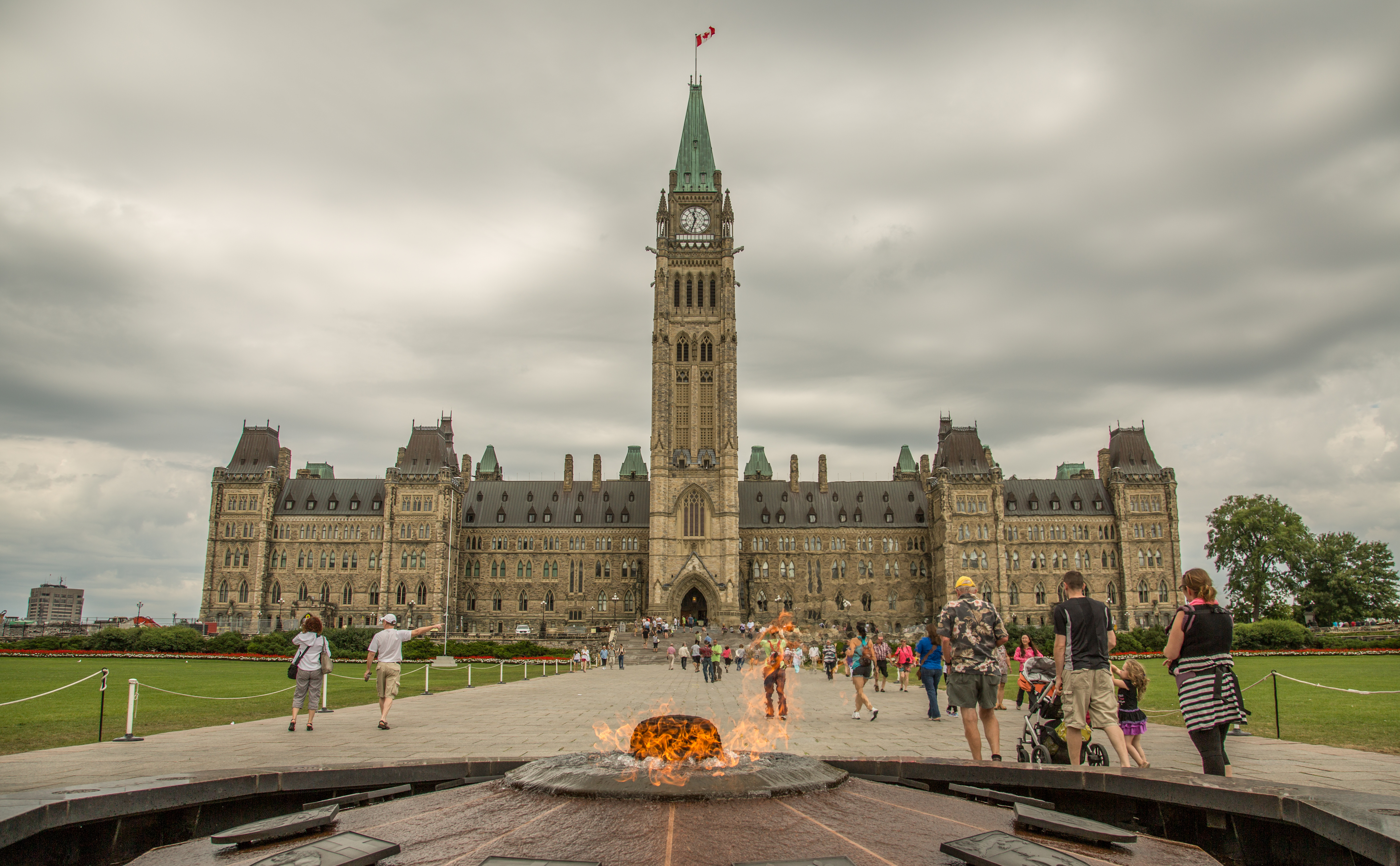 Parliament Hill, Ottawa